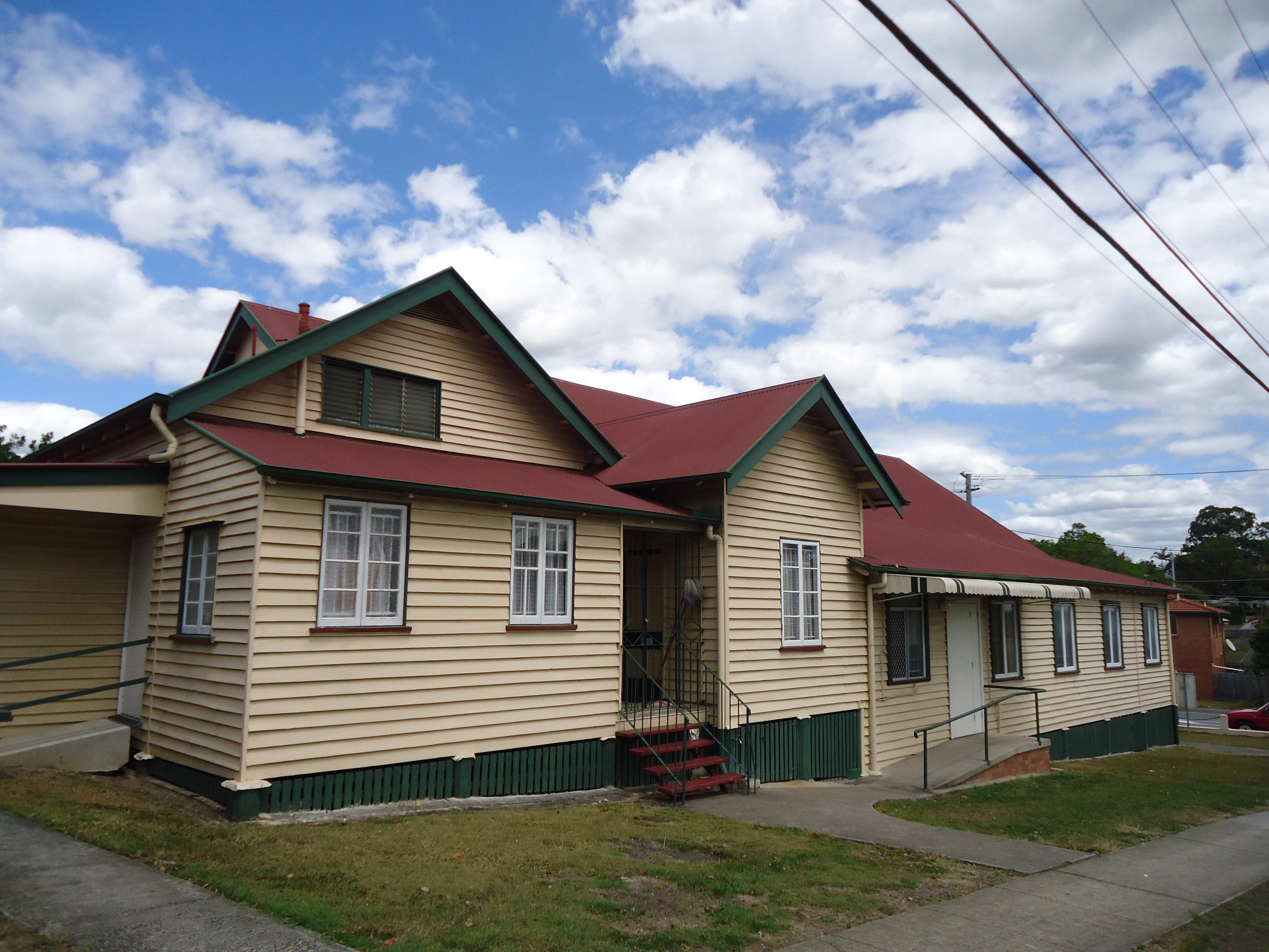 architect: Thomas Pye